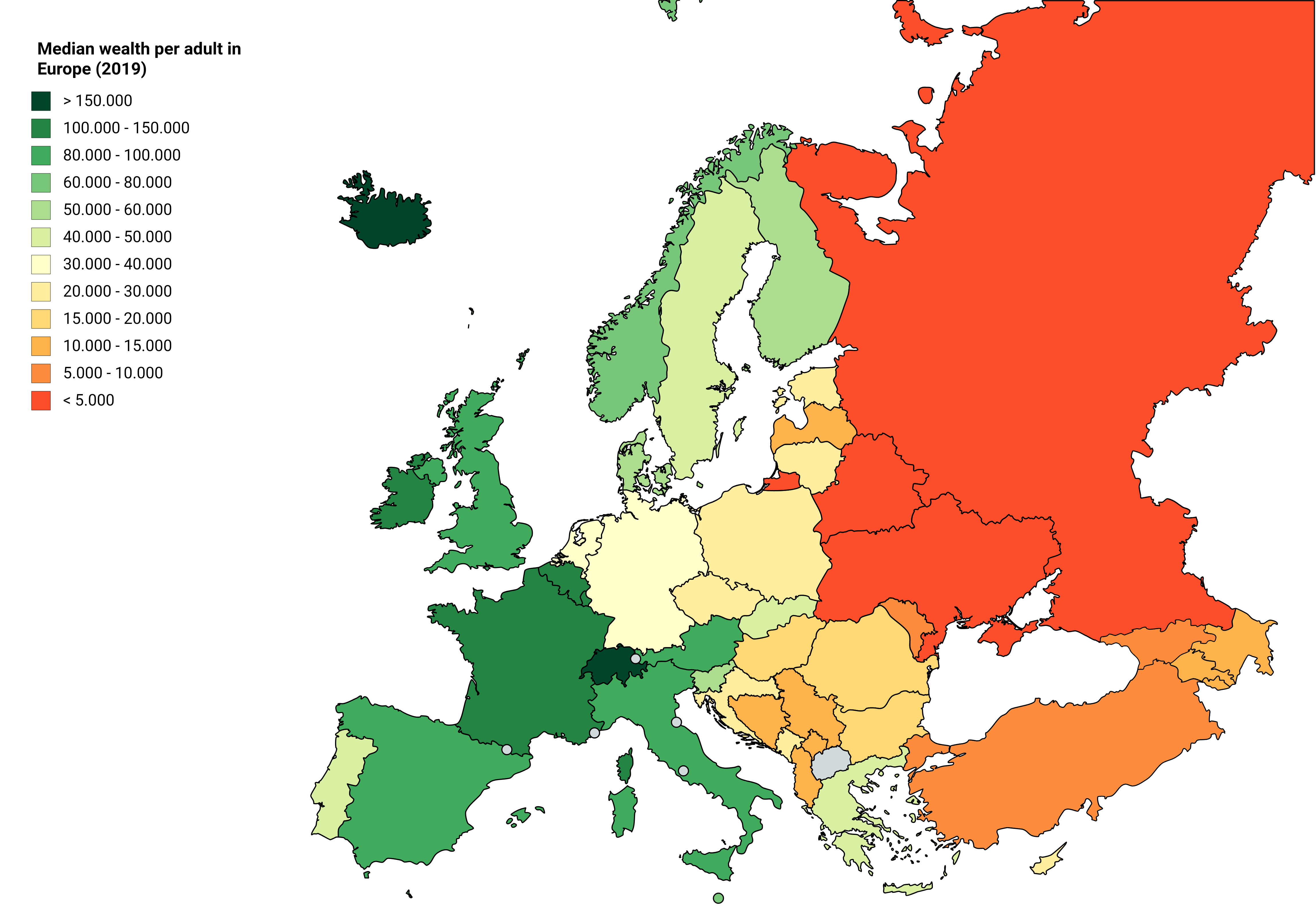 In green there are the wealthiest countries, in red the poorest.